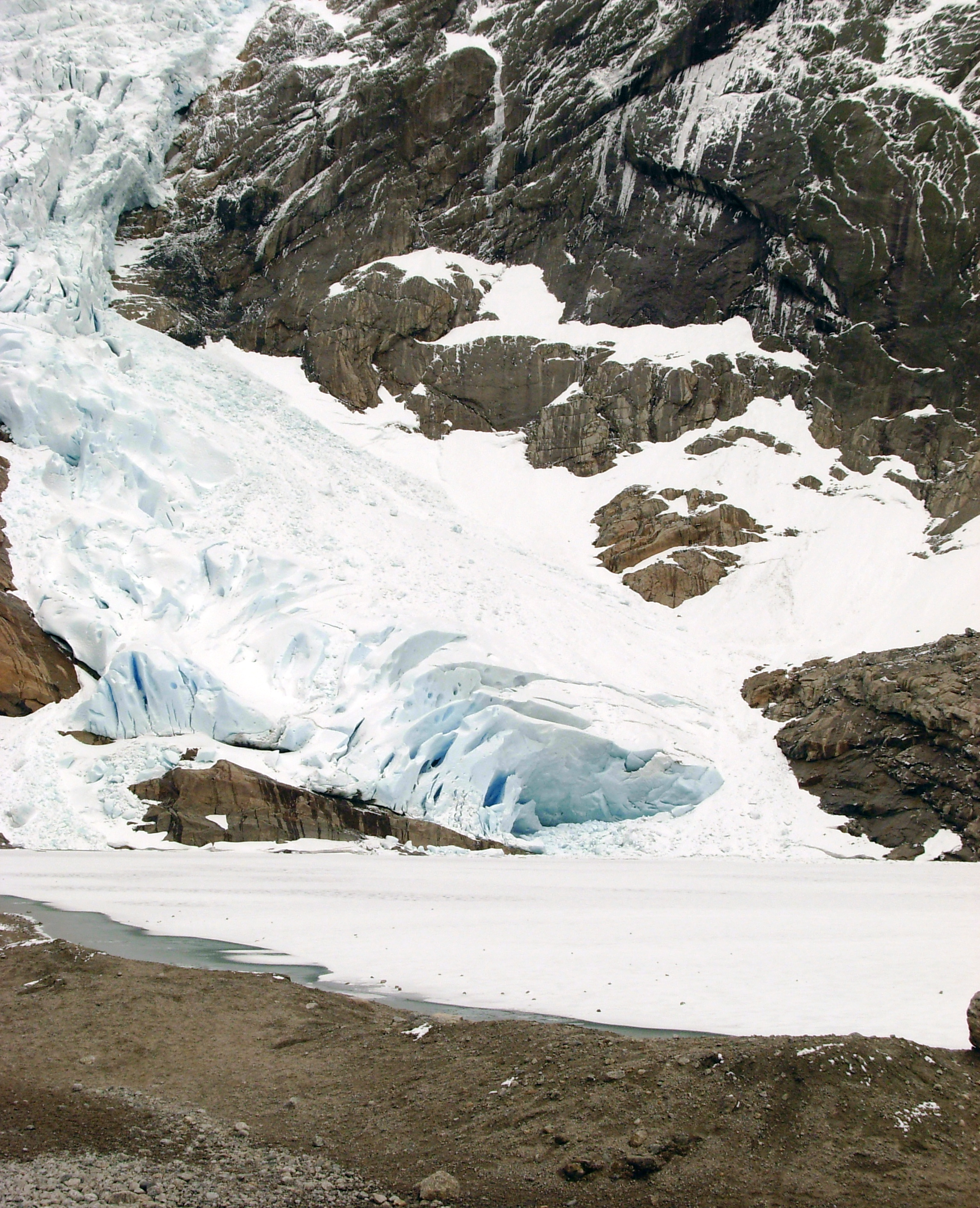 Jostedalsbreen glacier/ledynas